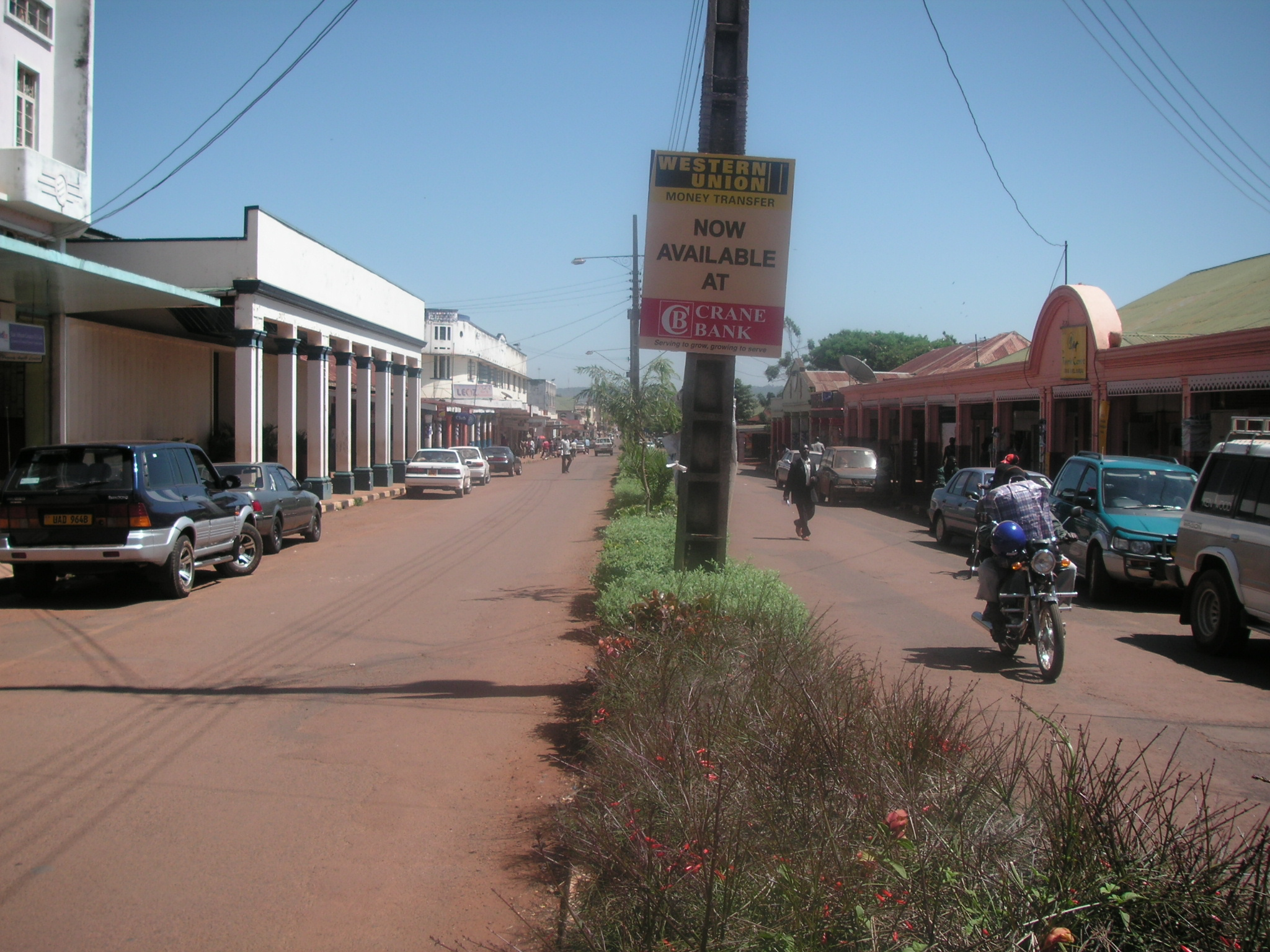 Main Street in Jinja (Uganda)